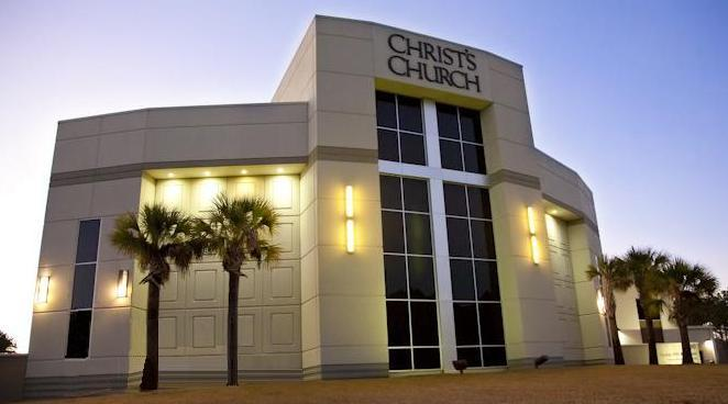 Front of Christ's Church Fleming Island, facing US 17